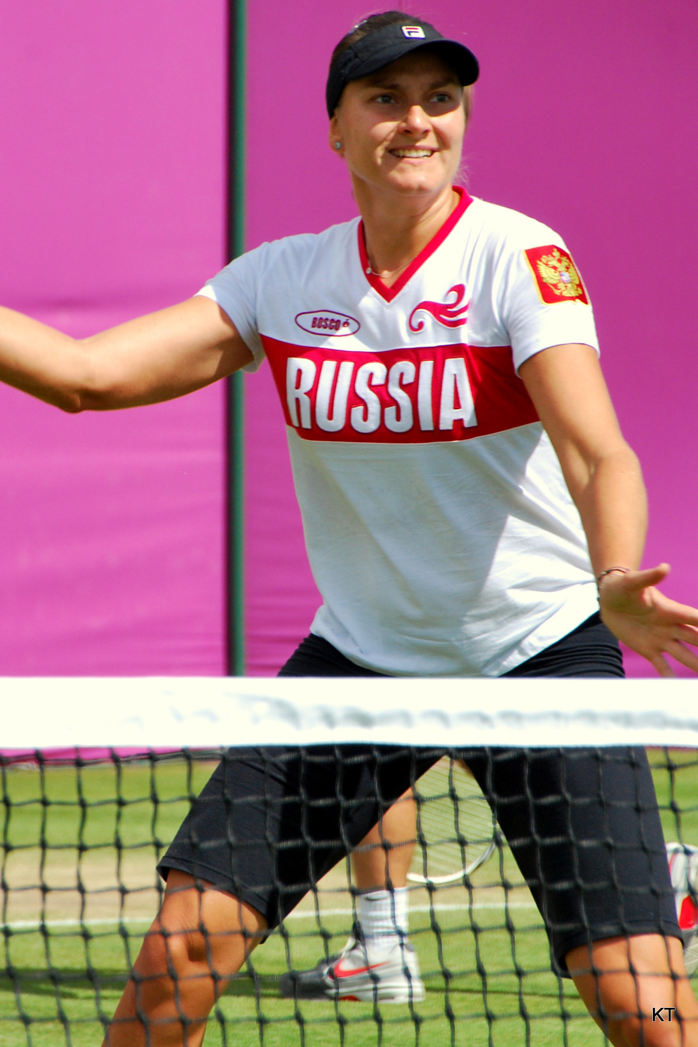 On the practice court with doubles partner Maria Kirilenko.